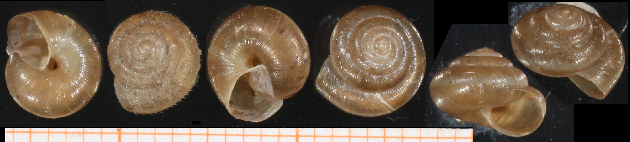 Pseudotrichia rubiginosa (Rossmässler, 1838), Hygromiidae, Pulmonata, Gastropoda, Northern Germany, Schleswig-Holstein, Wedeler Marsch